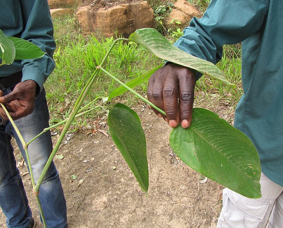 Close up of plant showing leaf and long stem structure. When mature one of the species of popular leaves used in central African cuisine as the leaf wrap for 'chikwangue' (cassava bread) and 'liboke'. Considered to be a 'forest leaf.' Alternate name Megaphrynium macrostachyum.